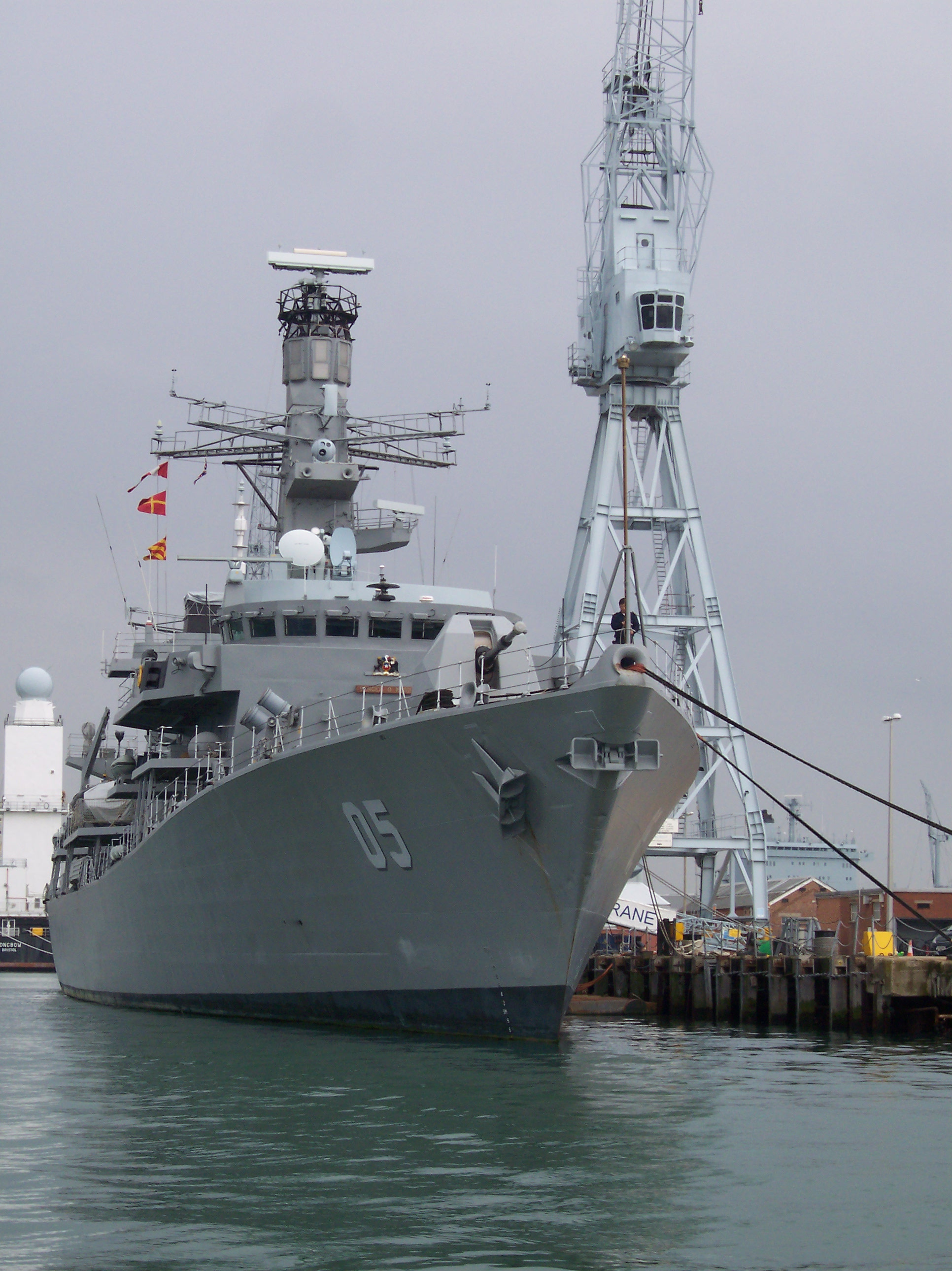 Chilean Frigate CNS Almirante Cochrane (FFG-05), ex- HMS Norfolk (F230).